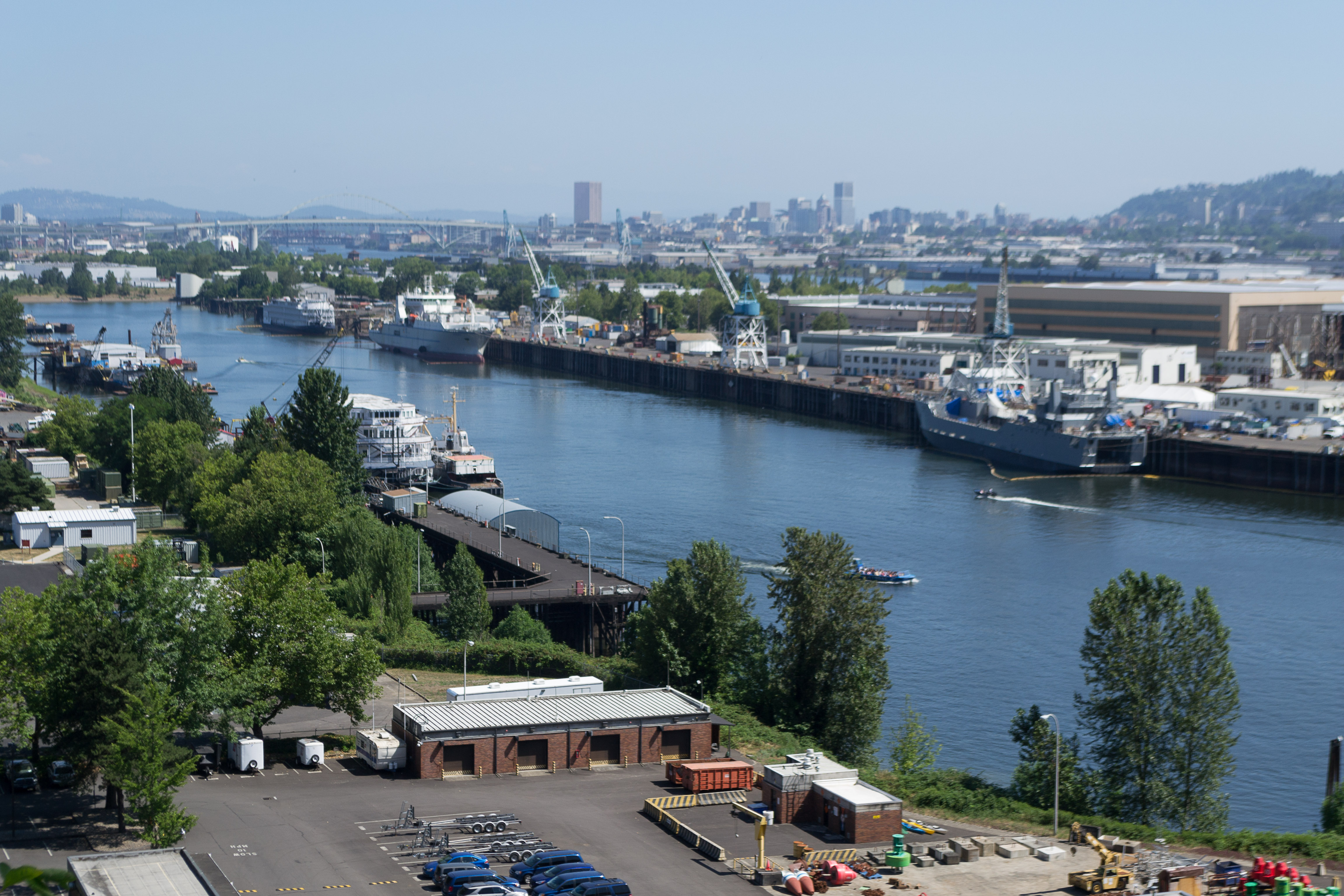 A view from the bluff at the University of Portland